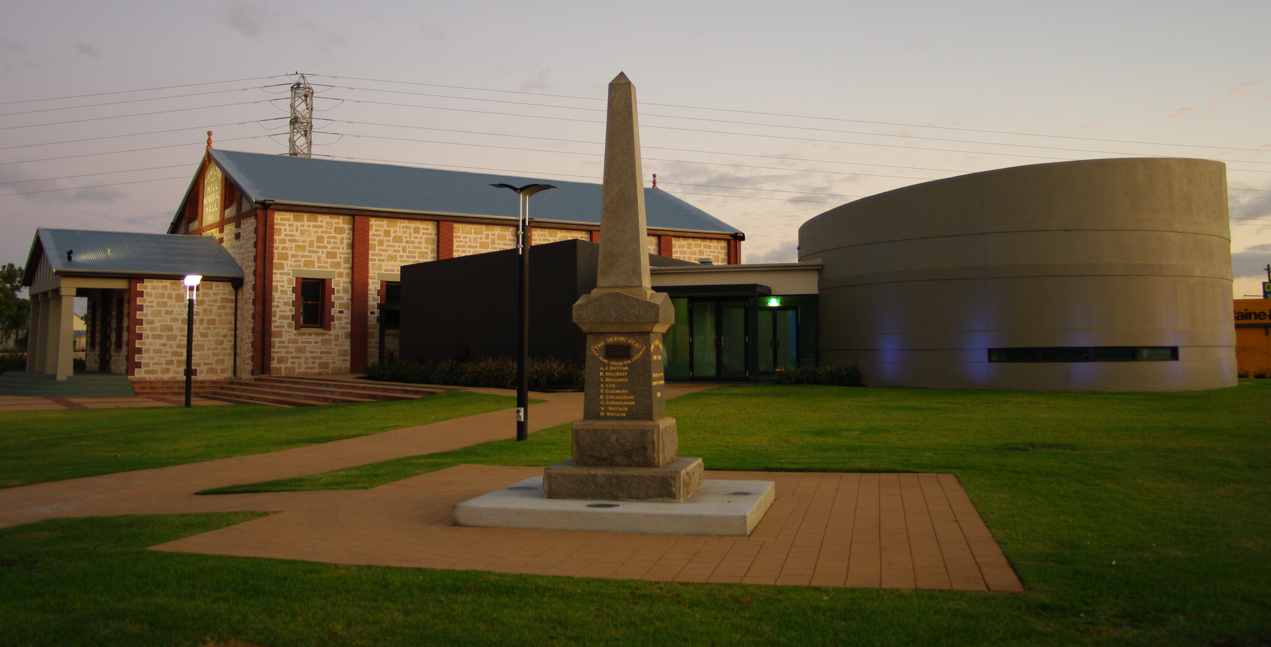 Memorial Hall cnr of Rockingham and Hamilton rds, Hamilton Hill, Western Australia. Built in 1925, the memorial hall was renovated and extended during 2008.